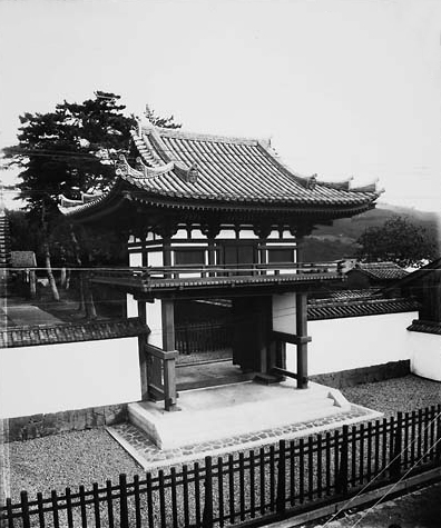 Romon, Hannyaji, Nara, Nara, Japan